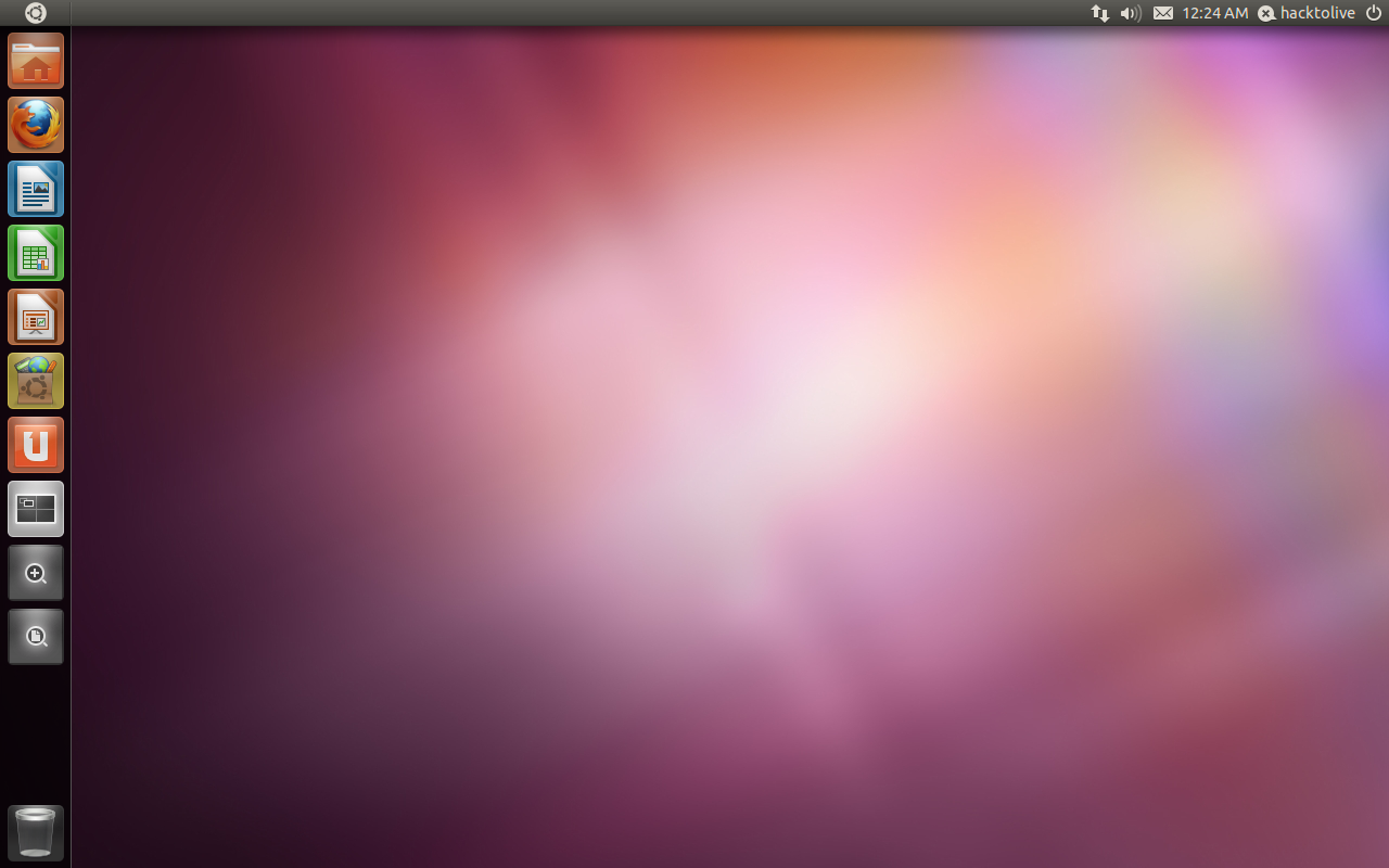 Super OS 11.04